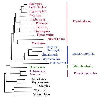 Phylogenetic tree of the genus Thylacinus according to Miller et al. mtDNA analysis.